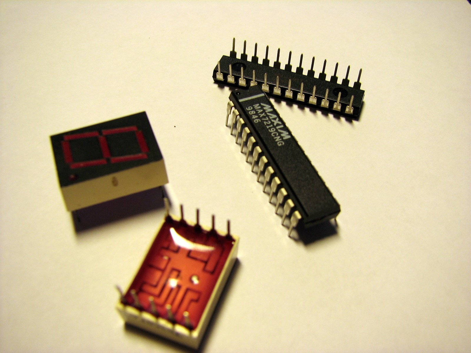 There are two pieces of Maxim's IC circuits and two 7-seg displays. I have taken this picture and everyone is allowed to use it anywhere.